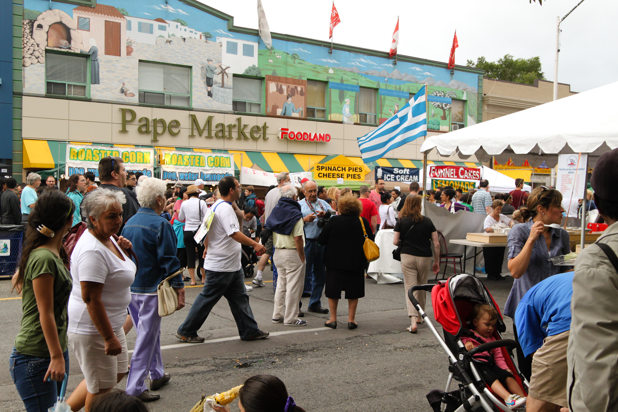 Taste of the Danforth 2012.